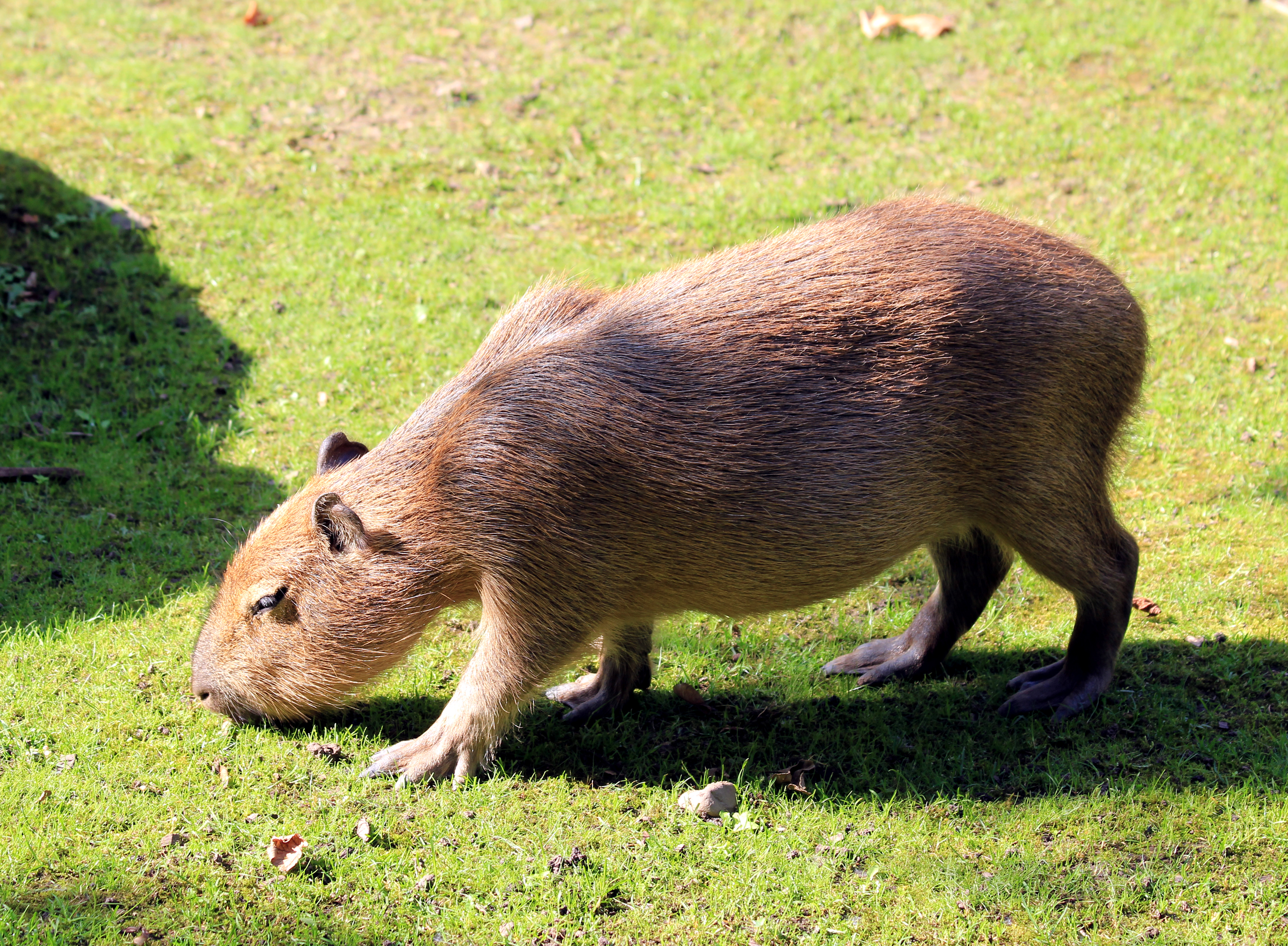 Capybara (Hydrochoeris hydrochaeris) in Prague Zoo, Czech Republic